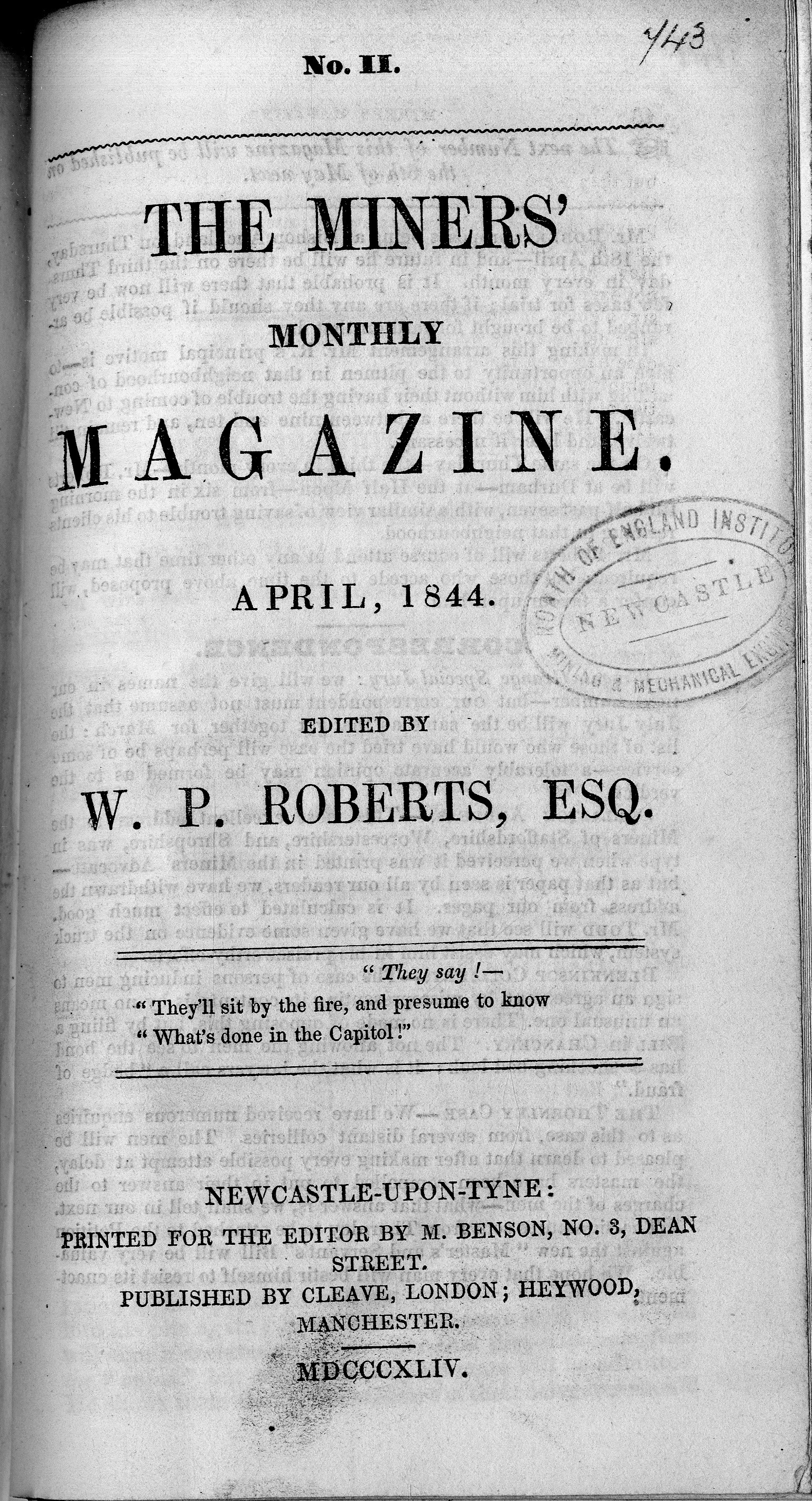 Read the full magazine at the North of England Institute of Mining and Mechanical Engineers; Tracts 28 Page 743